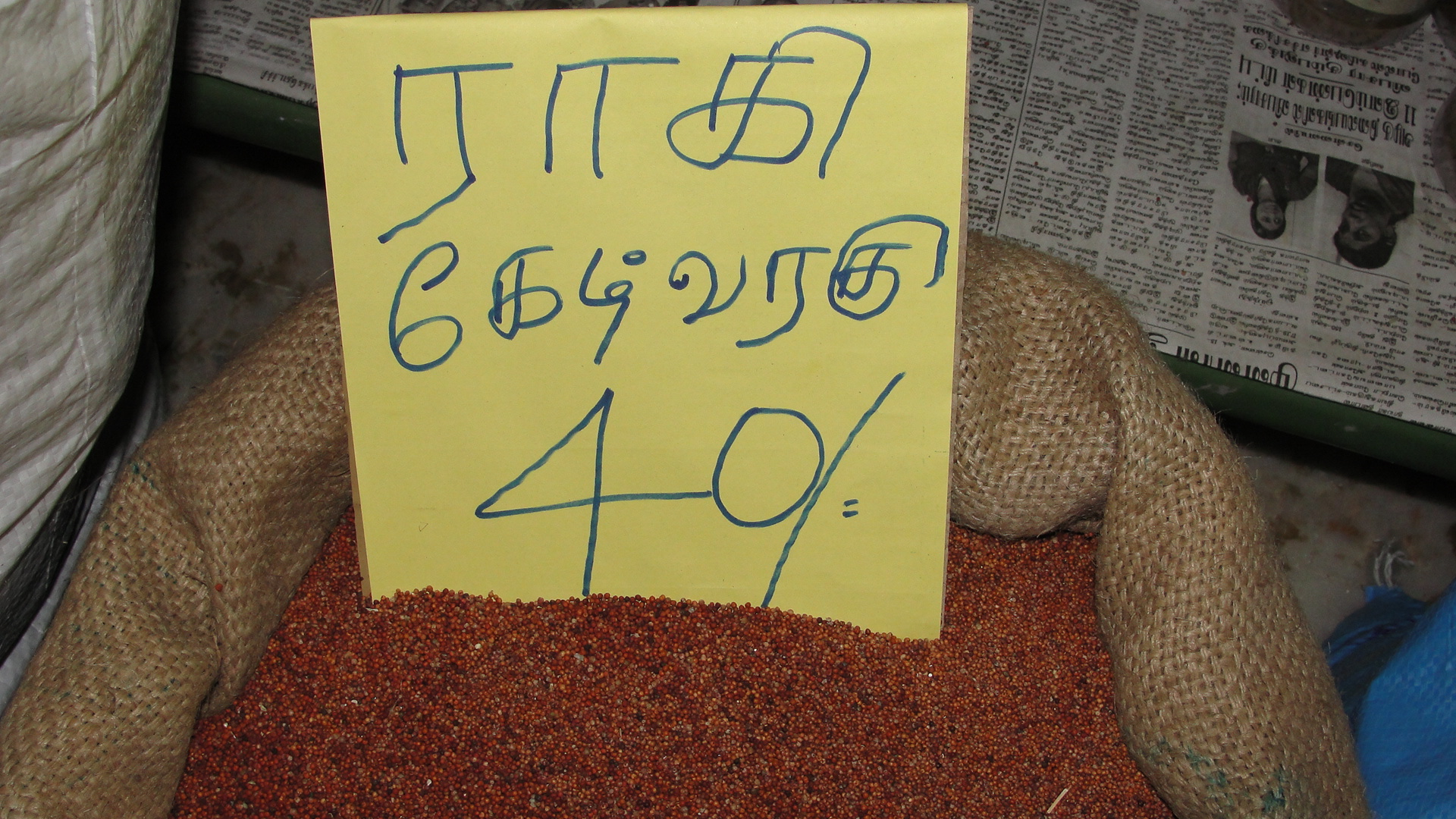 Ragi (Eleusine coracana) is one the main food of the Tamils.